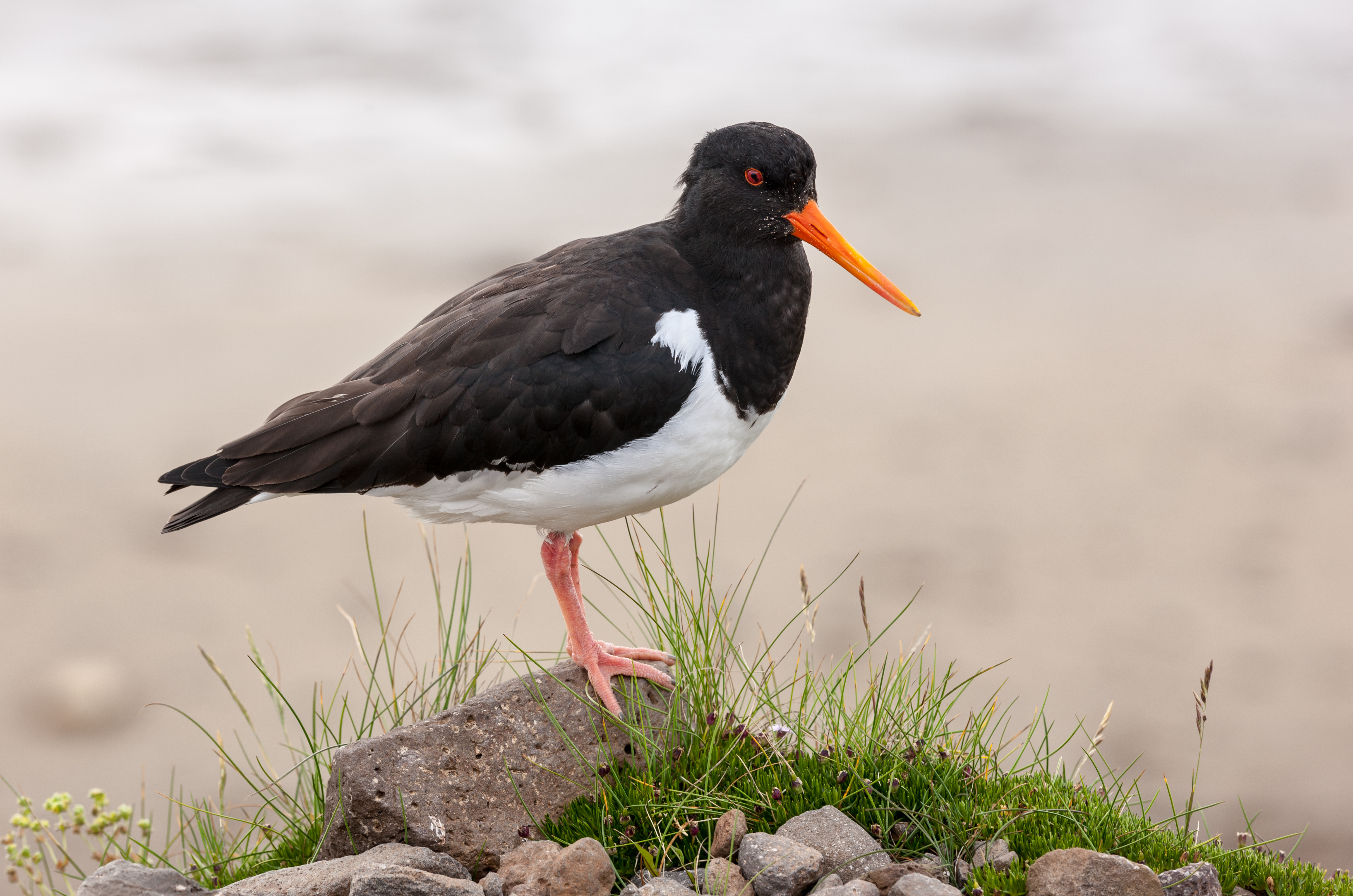 The Eurasian Oystercatcher (Haematopus ostralegus) also known as the Common Pied Oystercatcher, or (in Europe) just Oystercatcher, is a wader in the oystercatcher bird family Haematopodidae.